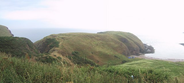 Earthworks on the Peninsula above Cullykhan Bay For a description of the antiquities here